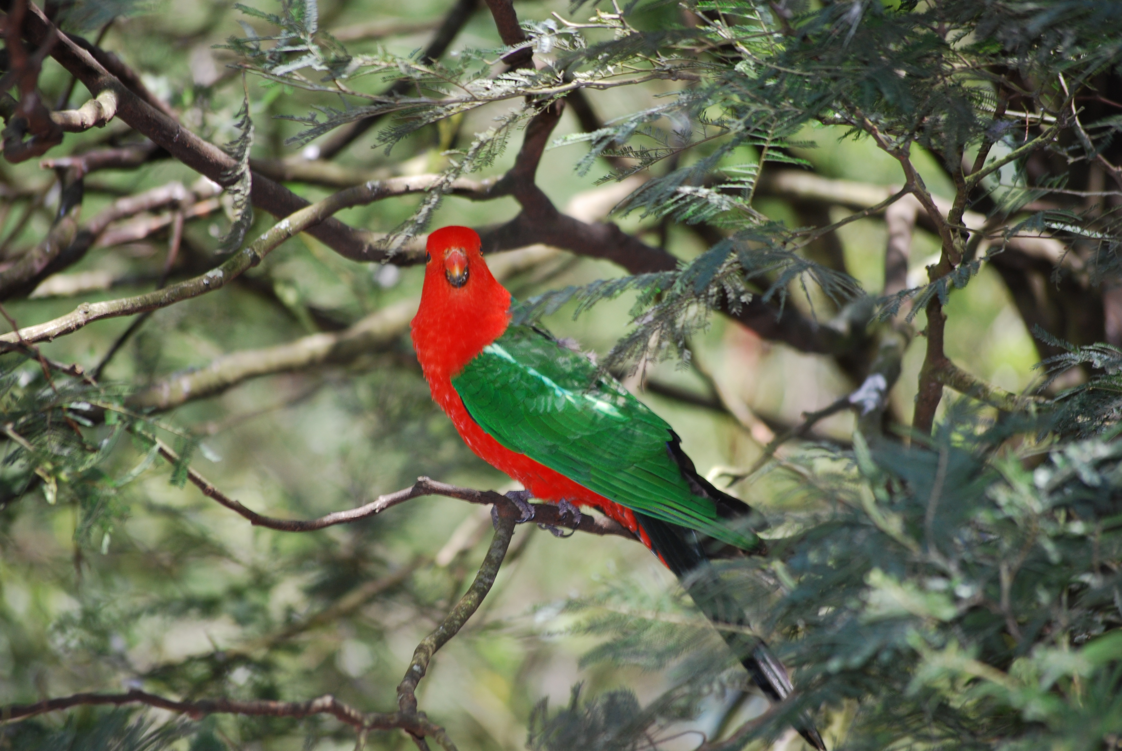 An adult male Australian Parrot perching in a tree at Grant's picnic ground, Australia.